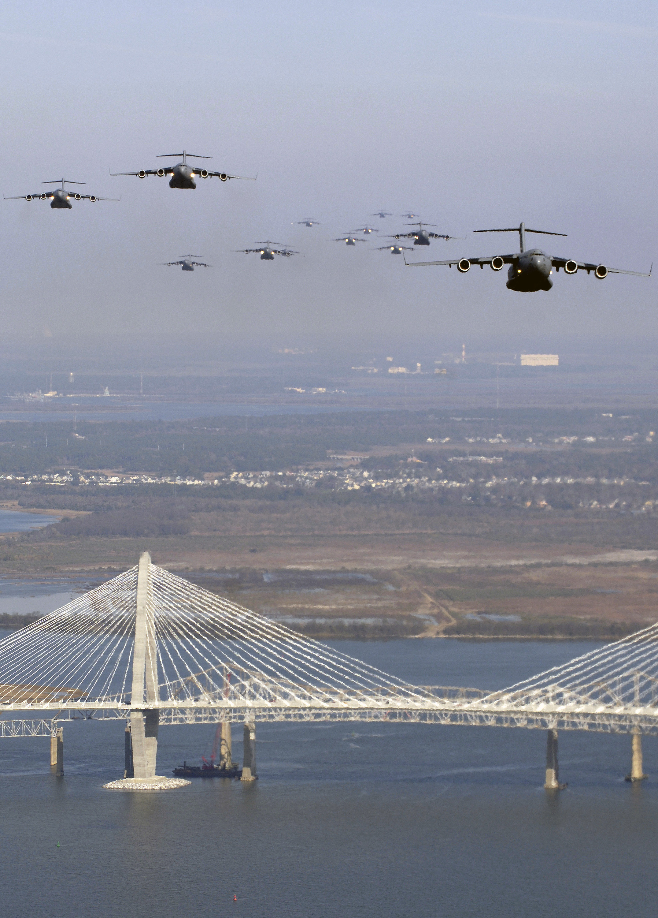 US Air Force (USAF) C-17 Globemaster III Cargo Aircraft, assigned to the 437th Airlift Wing (AW) and the 315th AW, fly over the Arthur Ravenel Bridge, in Charleston South Carolina (SC), as part of the largest formation of aircraft deployed from a single base to demonstrate the US Air Forces strategic airlift and airdrop capabilities.Location: CHARLESTON AFB, SOUTH CAROLINA (SC) UNITED STATES OF AMERICA (USA)